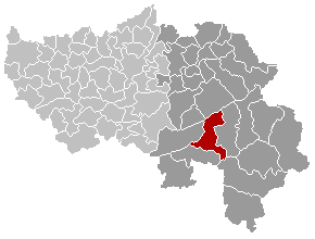 Map, municipality belgium Stavelot